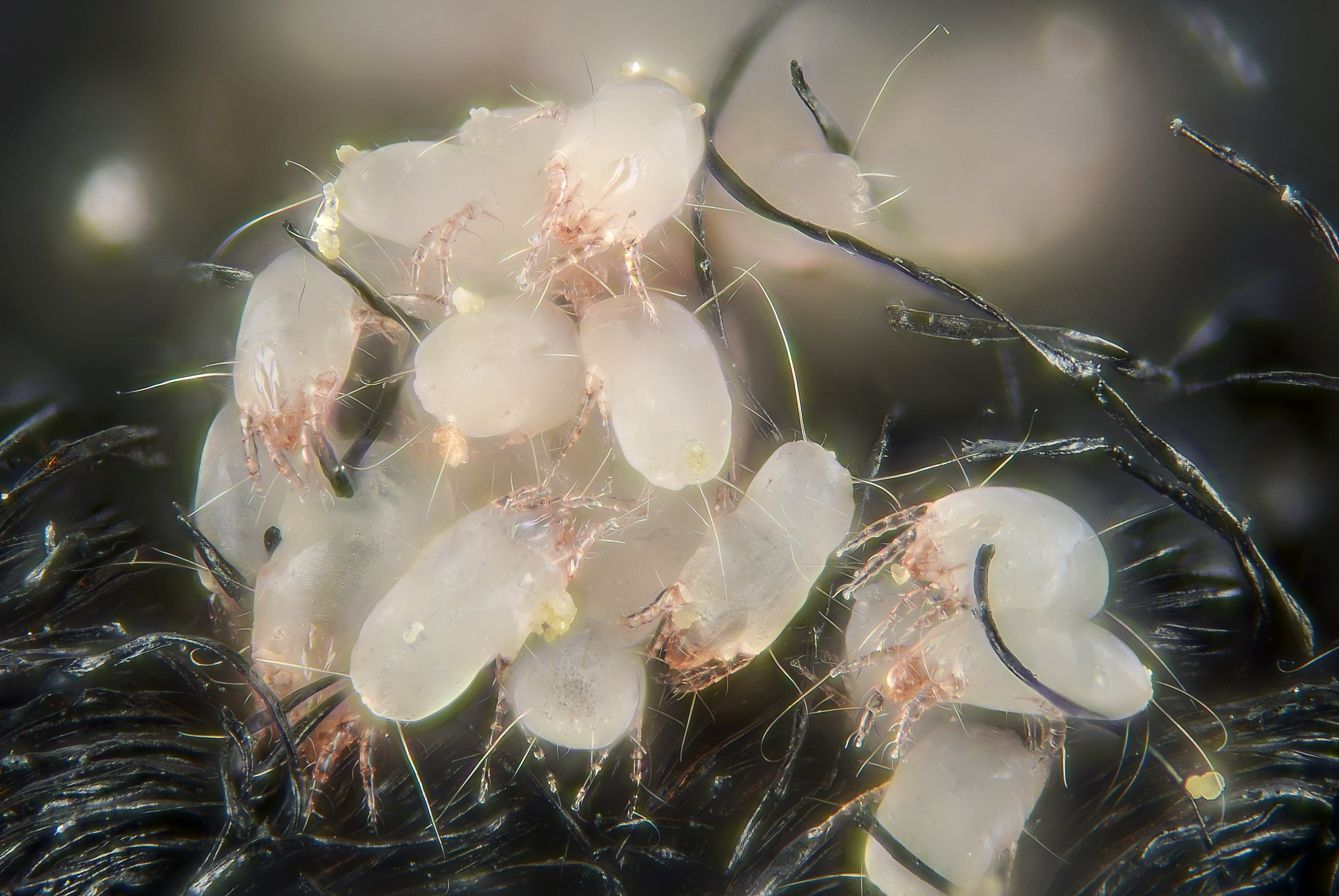 House dust mites (Dermatophagoides pteronyssinus) aggregate. More information about this behavior here : Scale : mite length = 0.3 mm Technical settings : - focus stack of 57 images - microscope objective (Nikon achromatic 10x 160/0.25) on bellow